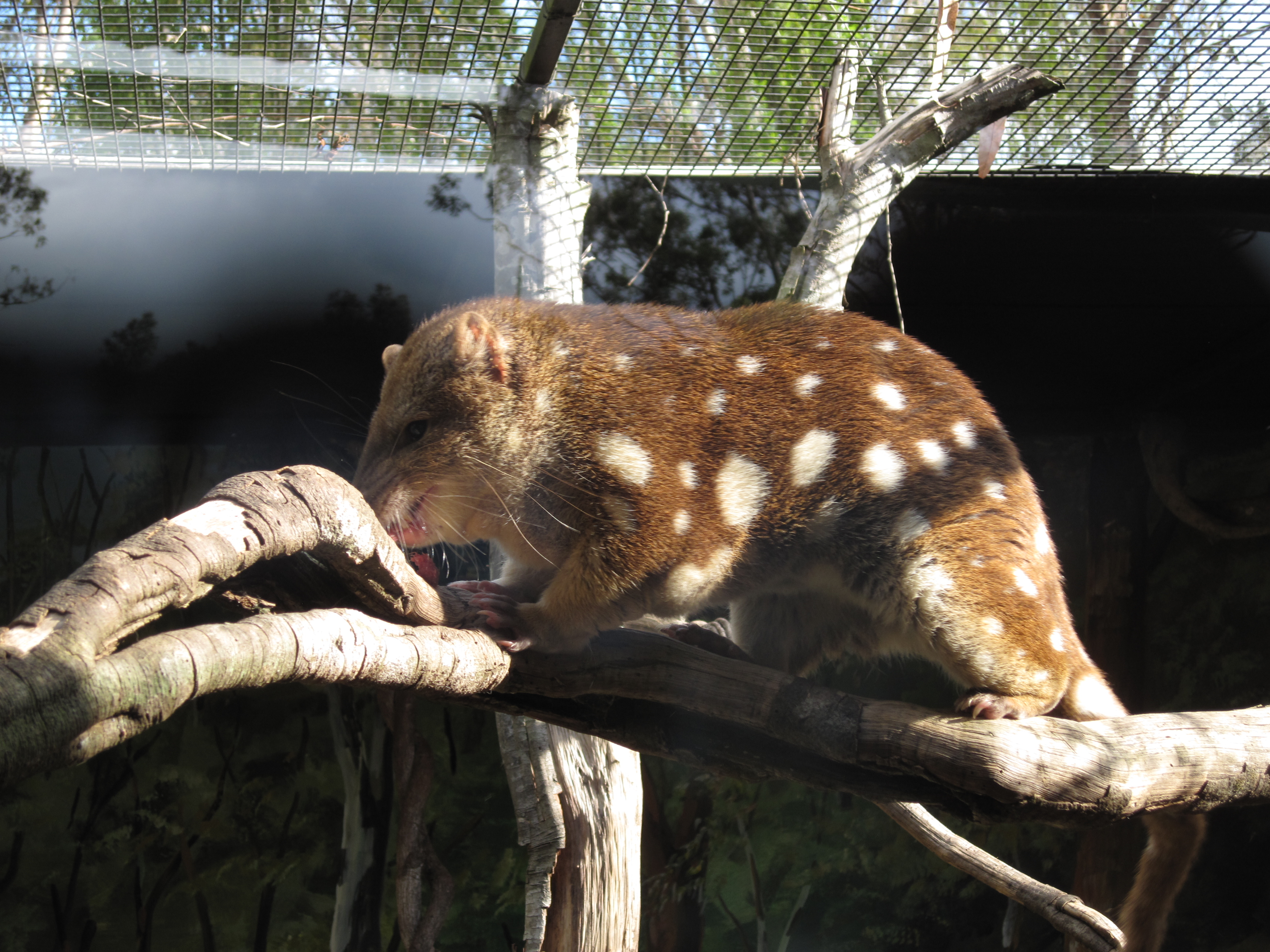 A Tiger Quoll in the Billabong Koala and Wildlife Park, Port Macquarie, New South Wales, Australia.